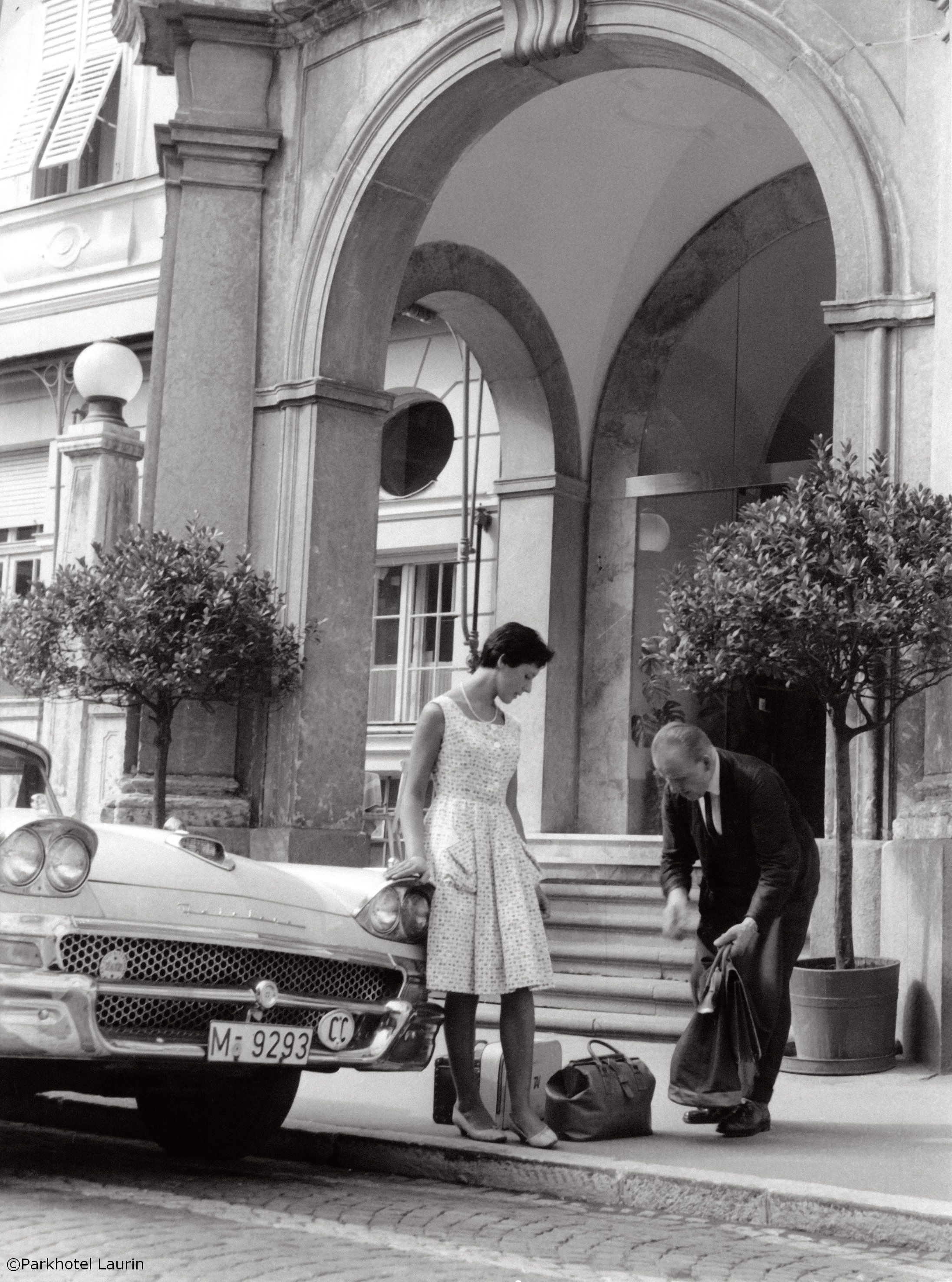 A porter lends a lady a helping hand